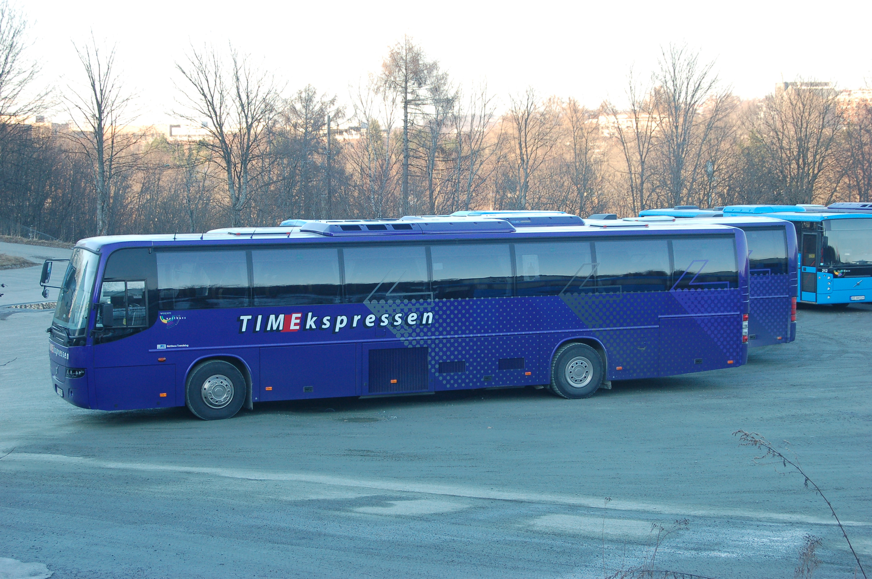 A Nettbuss "TIMEkspressen" bus parked in Trondheim, Norway